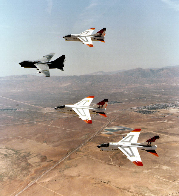 YA-7D and A-7D aircraft making last flyover formation over Edwards Air Force Base, California during their final fight to AMARC, Davis-Monthan AFB, Arizona, August 1992.